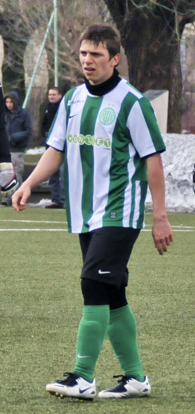 Dániel Sváb, Hungarian association football player.